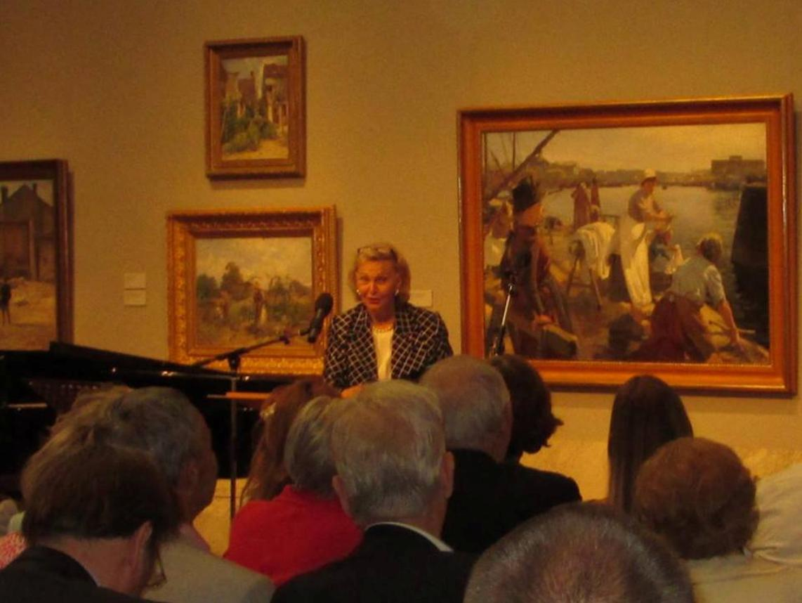 Princess Marianne Bernadotte giving out the 2016 Bernadotte Cultural AwardsPlace: Waldemarsudde, Stockholm, Sweden